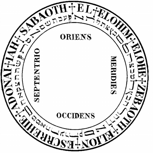 "THE FOURTH SEAL, OF THE MINISTERING" Scan of plate (the Fourth Seal) of the 1880 translation of the 1849 Johann Scheible (editor) version of The Sixth And Seventh Books Of Moses. No Author given. "The sixth and seventh books of Moses: or, Moses' magical spirit-art, known as the wonderful arts of the old wise Hebrews, taken from the Mosaic books of the Cabala and the Talmud, for the good of mankind. Translated from the German, word for word, according to old writings". s.n., New York 1880. translation of Das sechste und siebente Buch Mosis, das ist: Mosis magische Geisterkunst, das Geheimniss aller Geheimnisse. Sammt den verdeutschten Offenbarungen und Vorschriften wunderbarster Art der alten weisen Hebräer, aus den Mosaischen Büchern, der Kabbala und den Talmud zum leiblichen Wohl der Menschen. Wort- und bildgetreu nach alten Handschriften mit 42 Tafeln. (Liepzig, 1849). Online scans avalilable at: The Sixth and Seventh Books of Moses and "The sixth and seventh books of Moses: or, Moses' magical spirit-art, known as the wonderful arts of the old wise Hebrews, taken from the Mosaic books of the Cabala and the Talmud, for the good of mankind